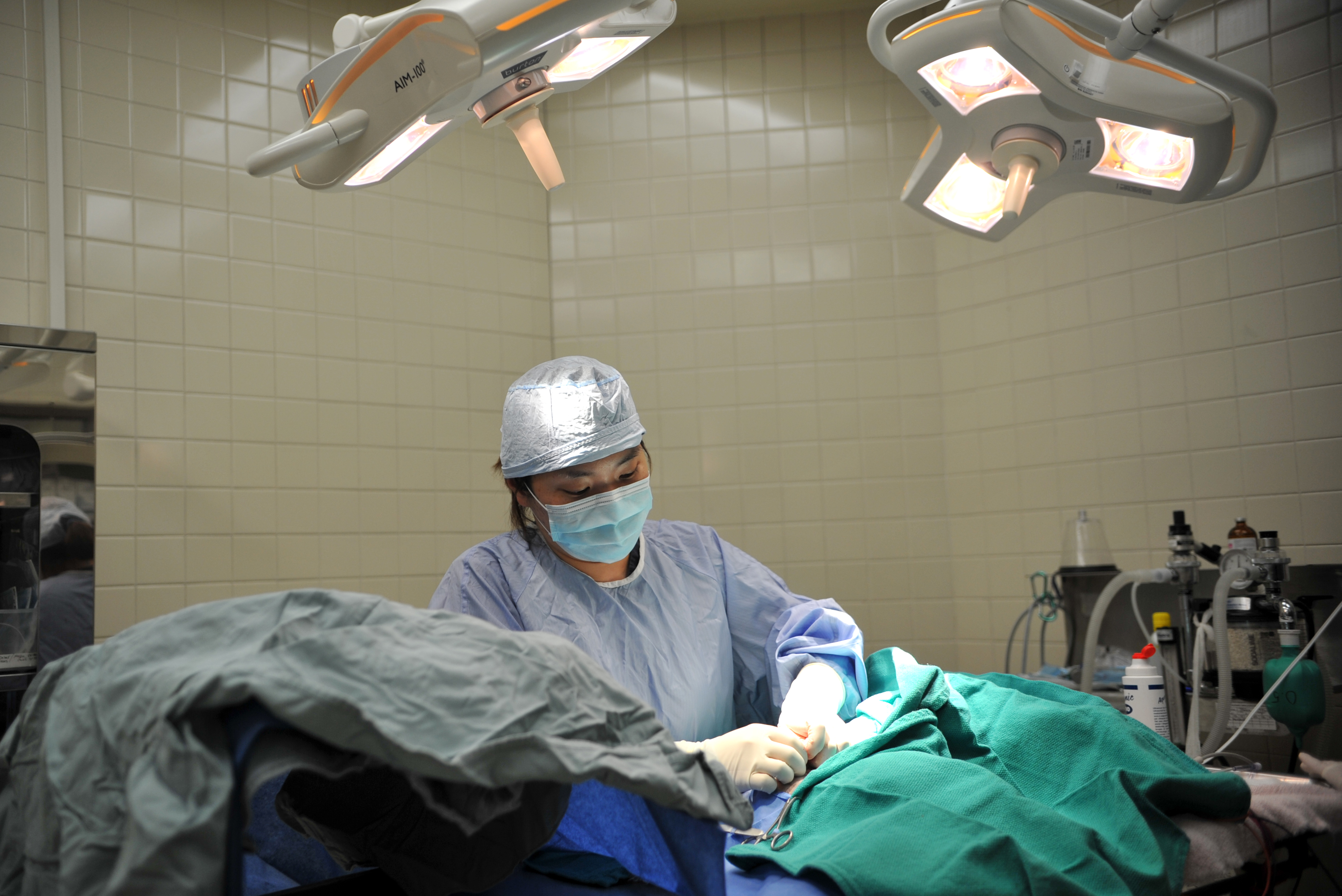 Dr. Kyongmi Kim, 106th Medical Detachment veterinarian, sutures an incision on Thor, a shih tzu, during minor surgery at the Veterinary Treatment Facility on Osan Air Base, Republic of Korea, June 3, 2014. Kim has been a veterinarian for seven years. (U.S. Air Force photo/Airman 1st Class Ashley J. Thum)